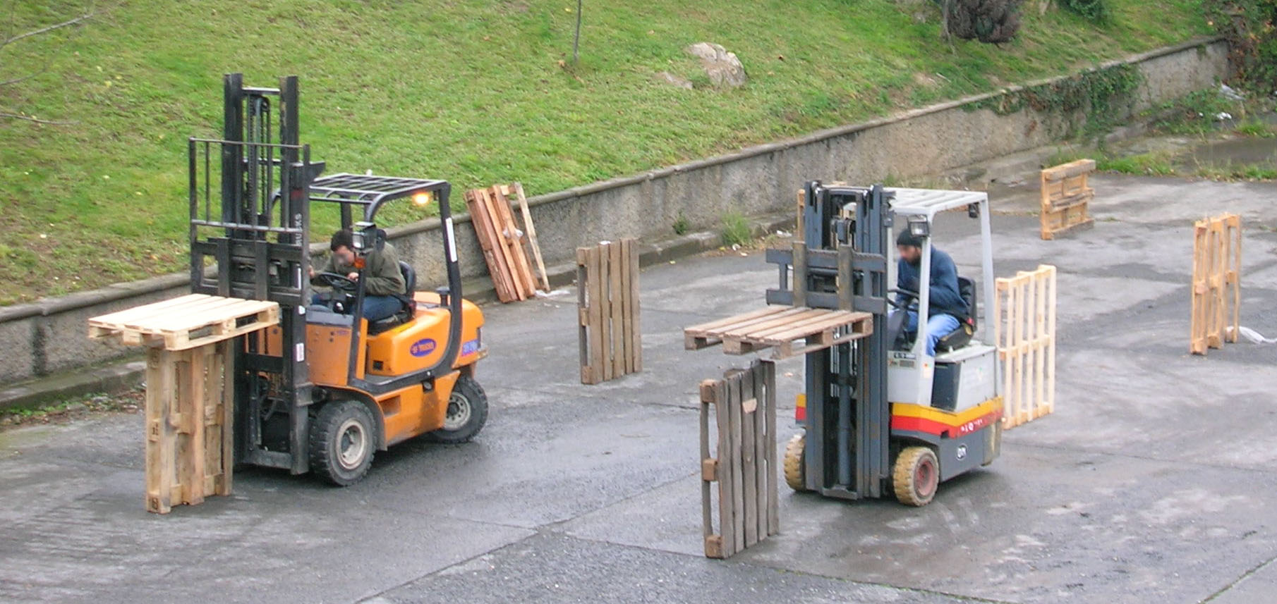 Two workers in a hability test with forklifts and European pallets (0.8 x 1.2 m) in the premises of Chronoexpress, Etxebarri, Biscay.